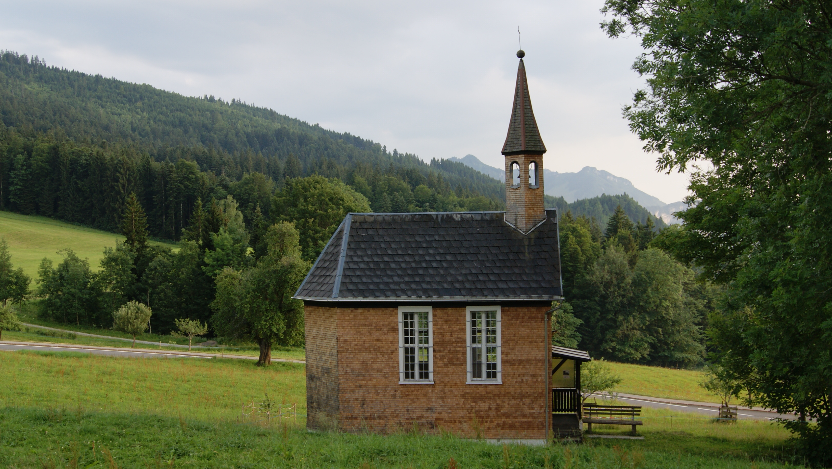 Chapel Mary Magdalene and Wendelin in "Ammenegg" in Dornbirn, Vorarlberg, Austria. View from the north.